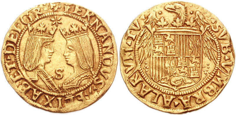 Spain, Castile & León. Fernando V & Isabel I (Los Reyes Católicos - the Catholic Monarchs). 1474-1504. AV Double Excelente (27mm, 7.01 g, 8h). Seville mint. Struck after 1497. +:FERNANDVS:Z:ELISABET:DEI:GRATIA Crowned busts of Ferdinand and Isabel, vis-à-vis; six-rayed star in field above, S between busts ••SVB:VMBRA:ALARVM:TVA:•••• Nimbate eagle displayed with crowned royal coat-of-arms on breast; five-pelleted plant to left of shield, six-pelleted plant to right.